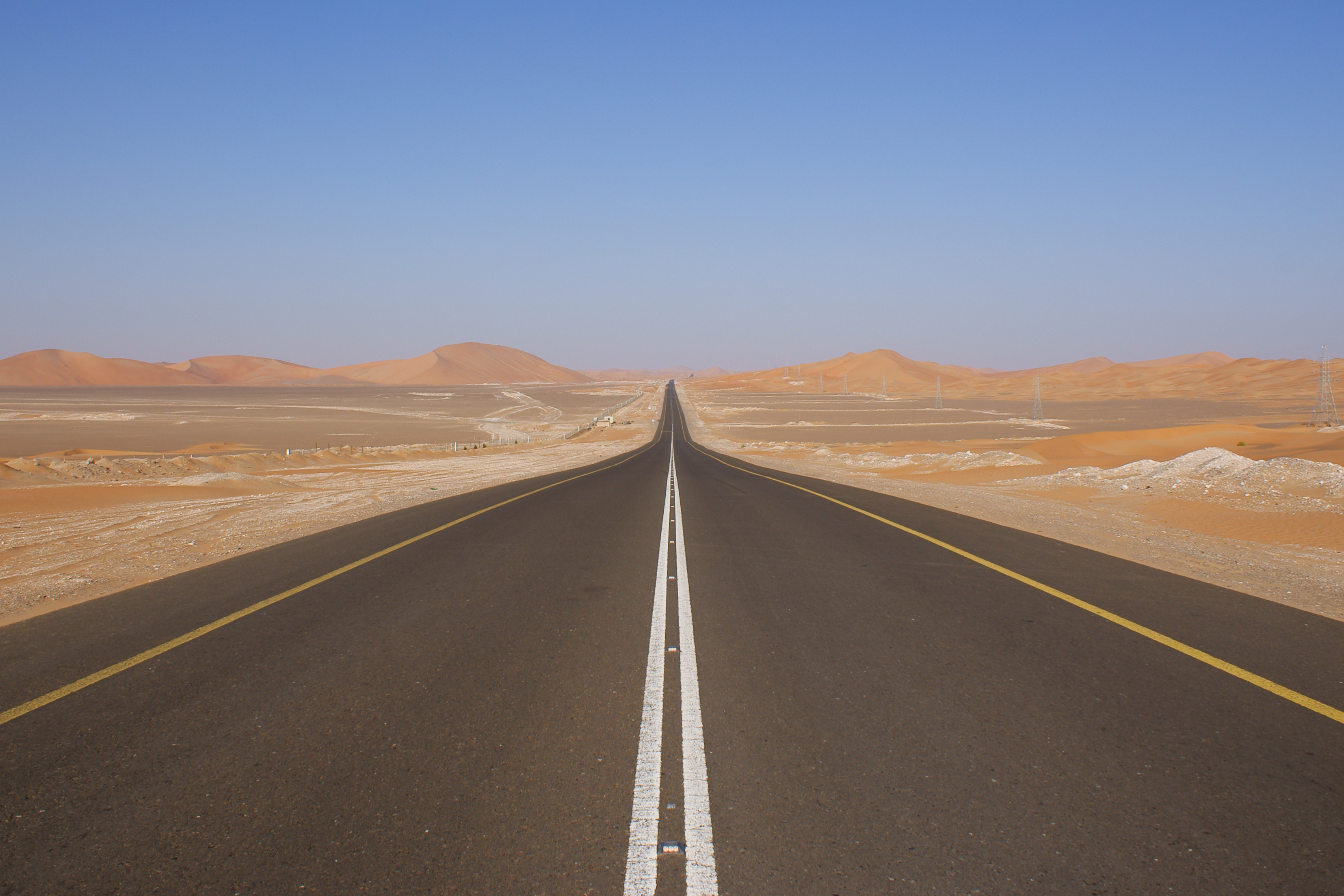 Road in the UAE.